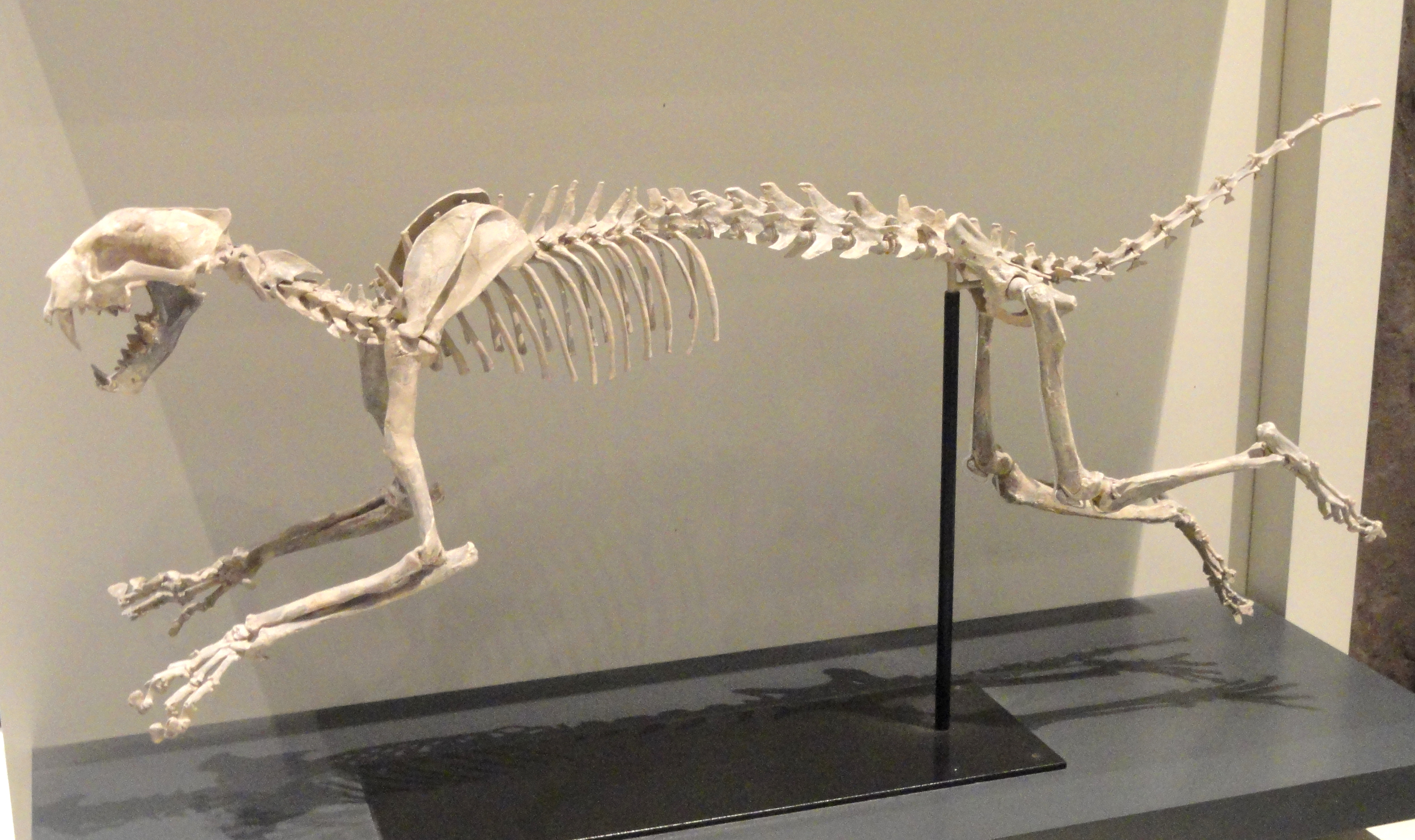 Exhibit in the Royal Ontario Museum, Toronto, Ontario, Canada. This exhibit is old enough so that it is in the public domain, and photography was permitted in the museum. I took this photograph and release it into the public domain.